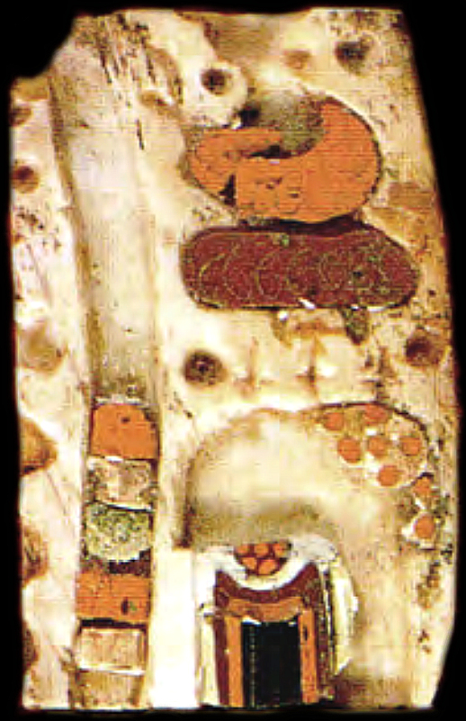 Ai Khanoum Indian plate detail. This detail is one of the plaques belonging to the Ai Khanoum Indian plaque (the hut furthest to the right).